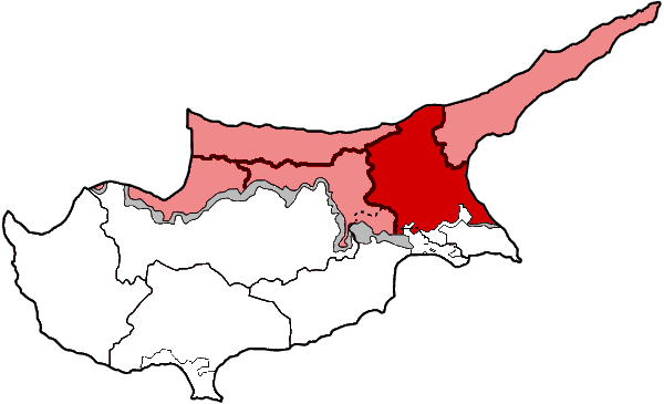 Locator map of the current de facto district of Gazi Mağusa (Famagusta) in Northern Cyprus.